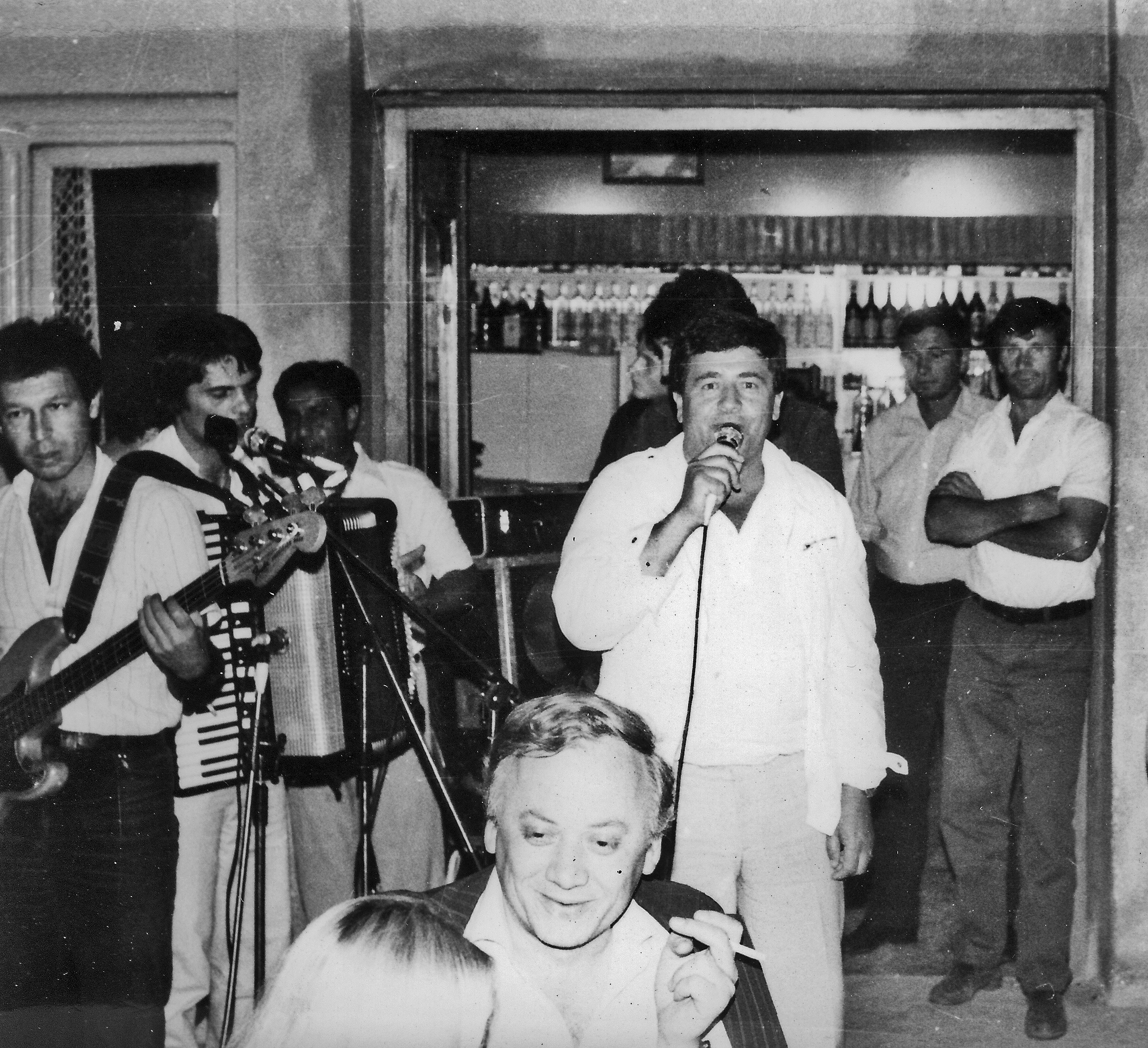 Meho Puzic performed in Niš (Serbia), early 80's